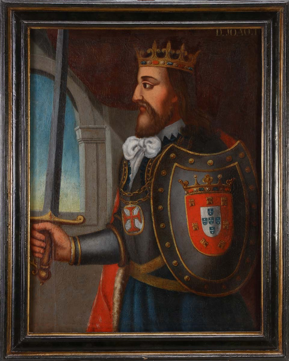 John II of Portugal